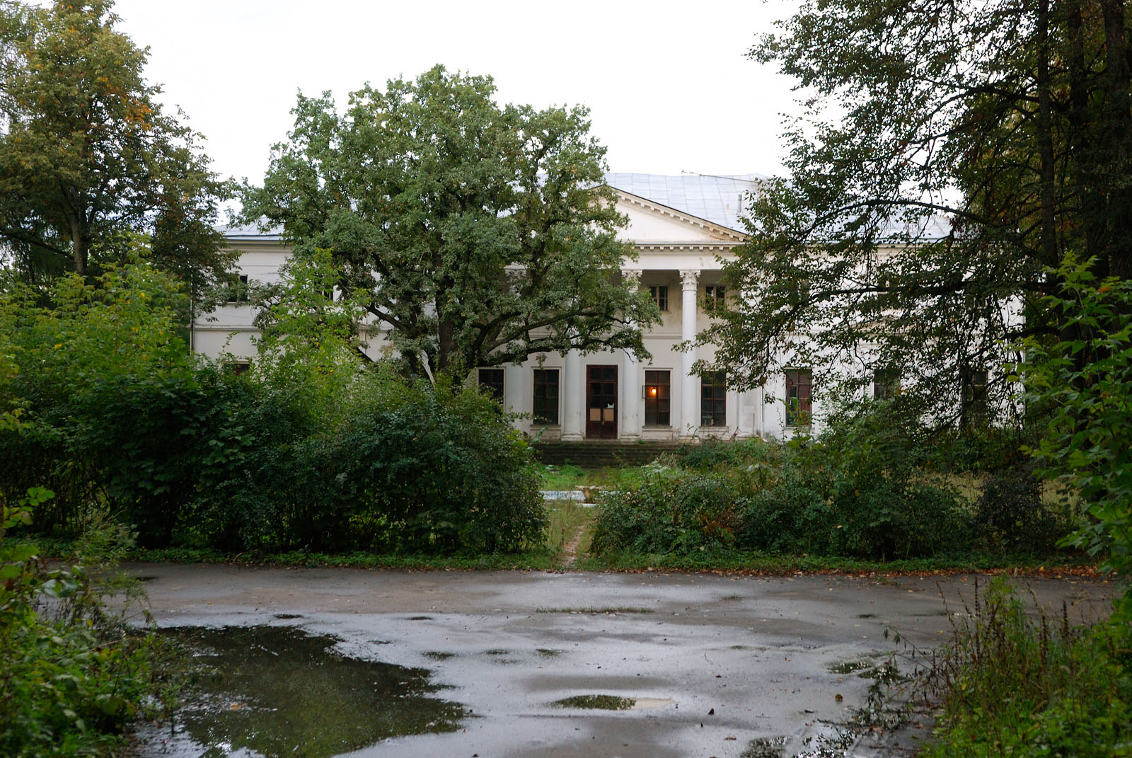 Petrovo-Dalneye XVII-XIX century estate in Krasnogorsk district, Moscow region, Russia